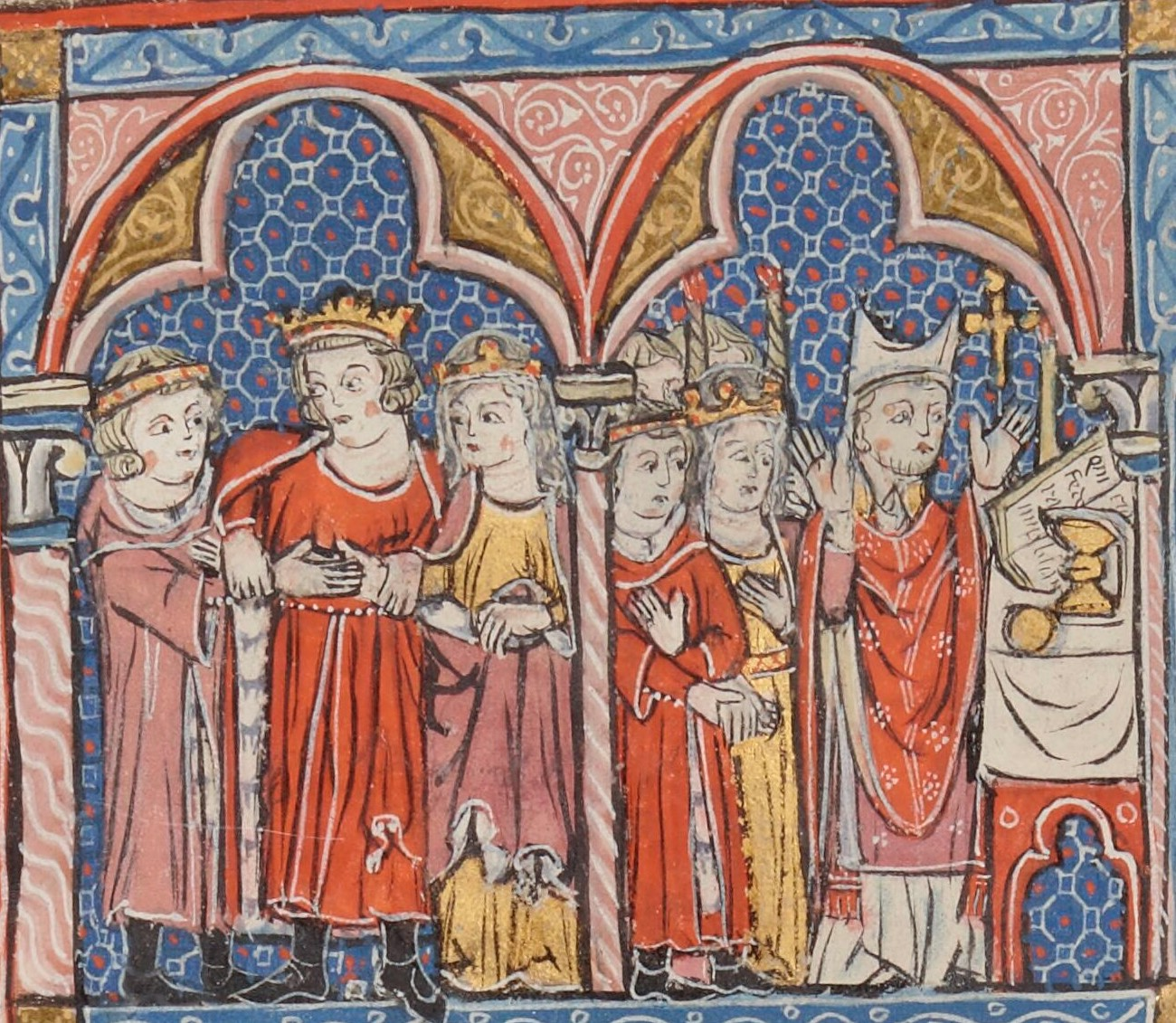 Miniature: wedding of Humphrey of Toron and Isabella of Jerusalem